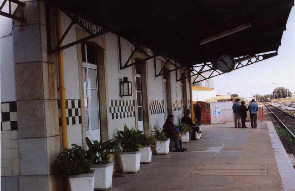 Ermidas-Sado Railway Station